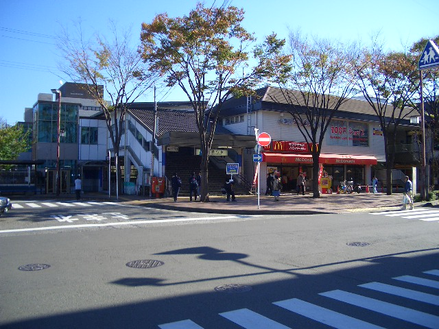 Zengyō Station west exit, on the Odakyu Enoshima Line, Fujisawa, Kanagawa 善行駅